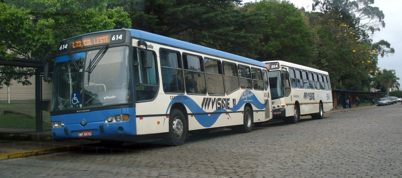 Marcopolo Viale bus (#614) in Caxias do Sul, Rio Grande do Sul, Brazil.